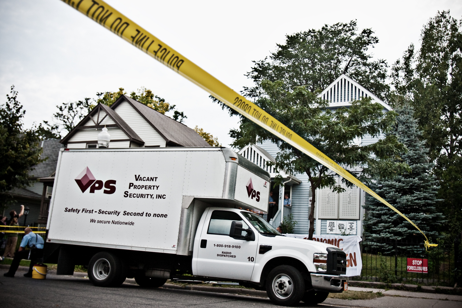 Police watch while workers install steel screens over the windows of Rosemary Williams' foreclosed home at 3138 Clinton Avenue South in Minneapolis as her property is removed.